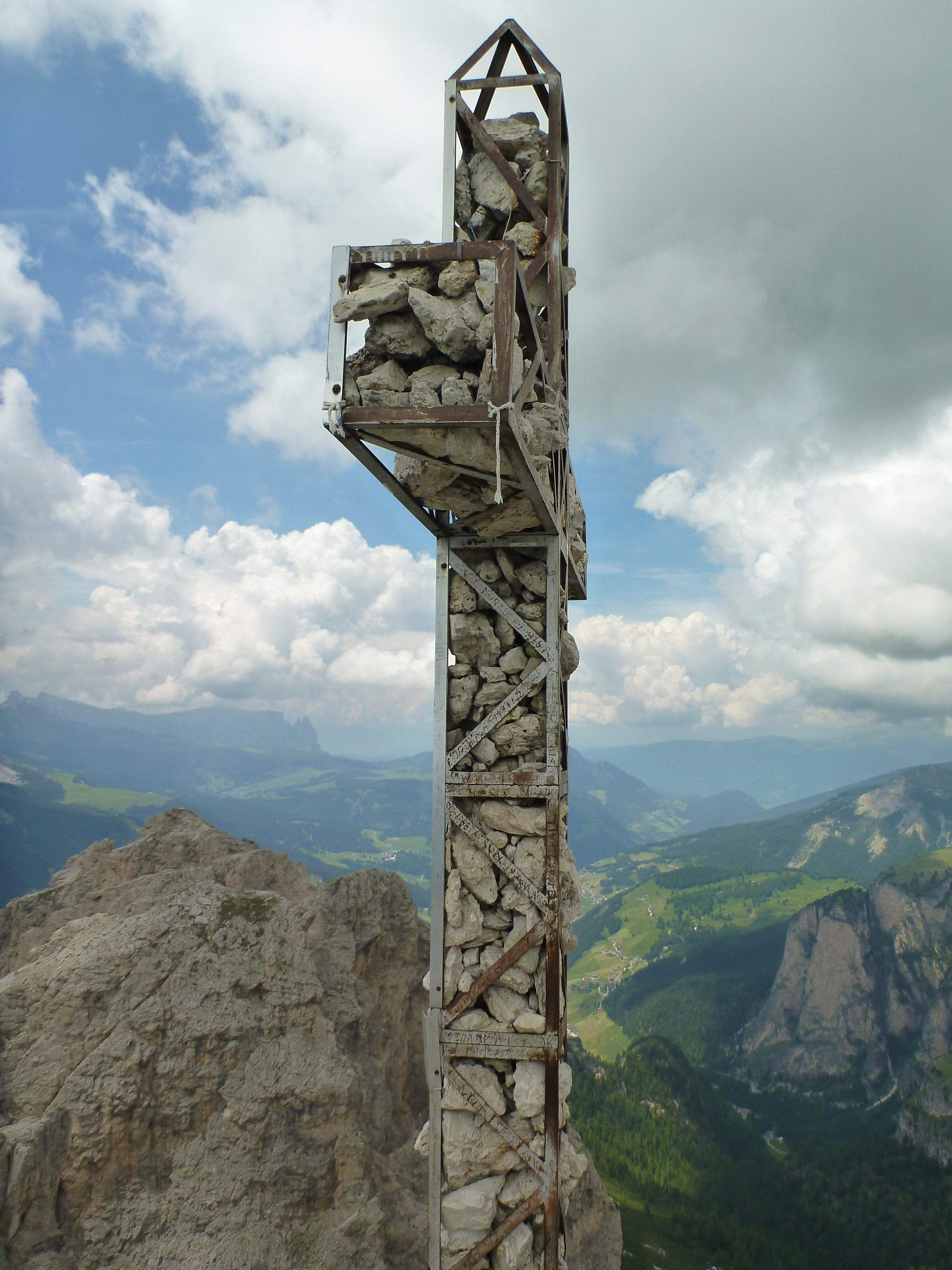 Summit cross of Großer Cirspitze